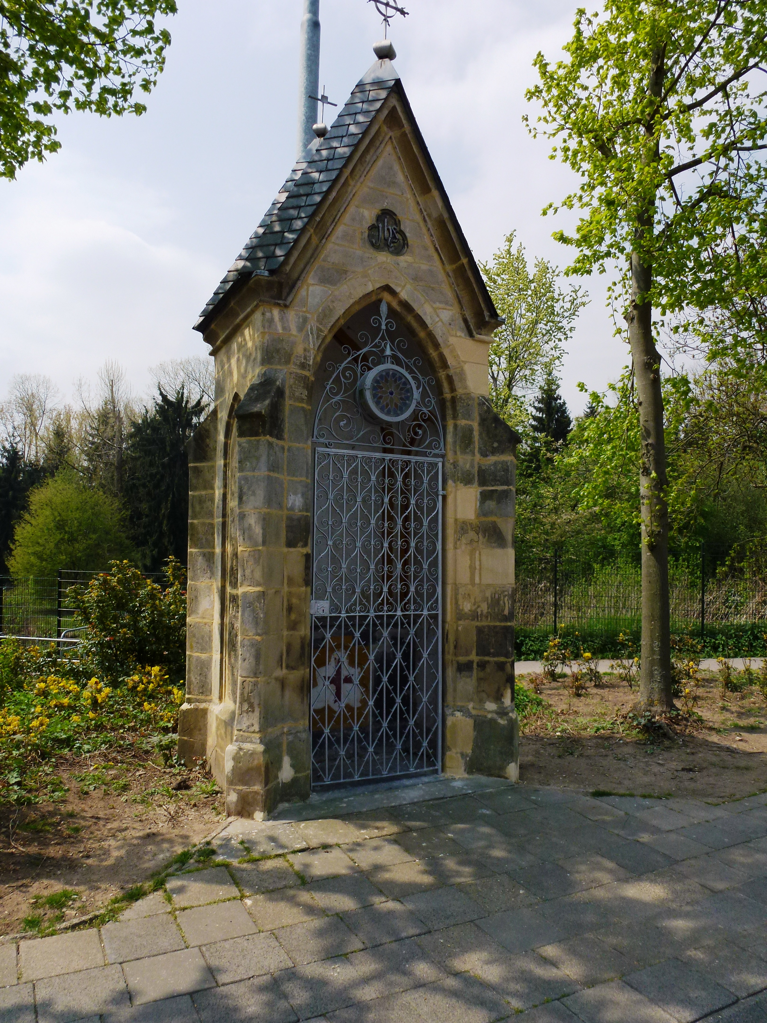 Roermond, wegkapel tegenover Prins Bernardstraat.